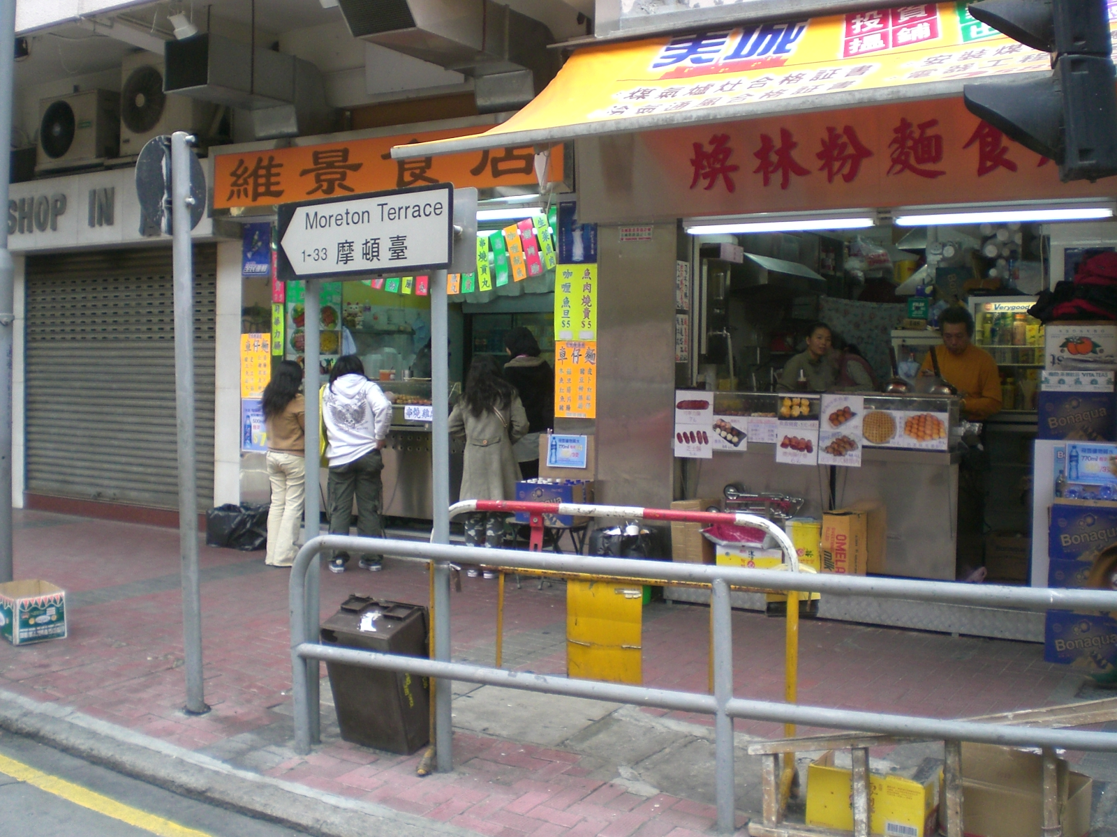 銅鑼灣zh:摩頓台, Moreton Terrace, Tai Hang, Causeway Bay, Hong Kong.